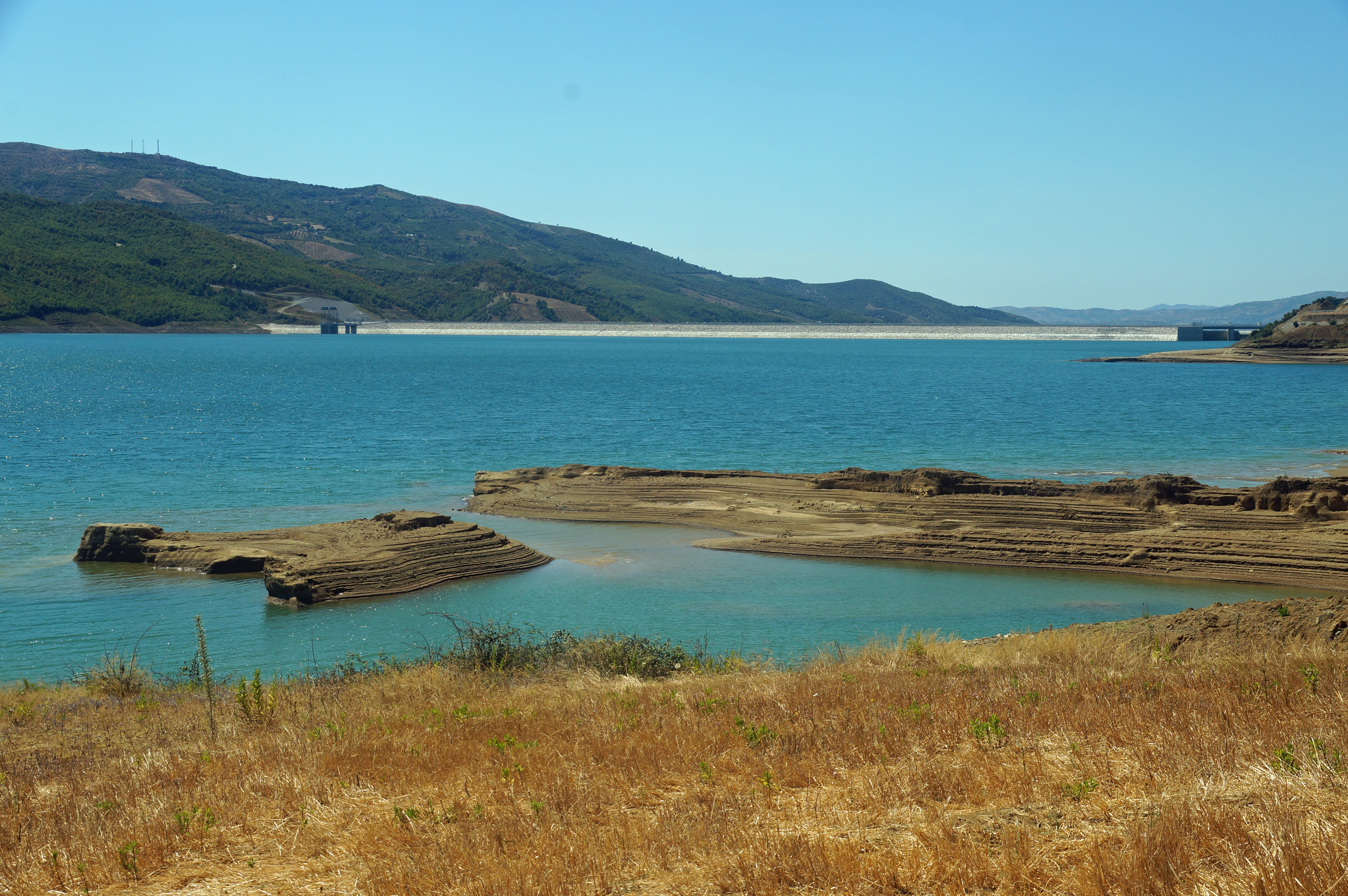 Banja Lake in Gramsh, Albania